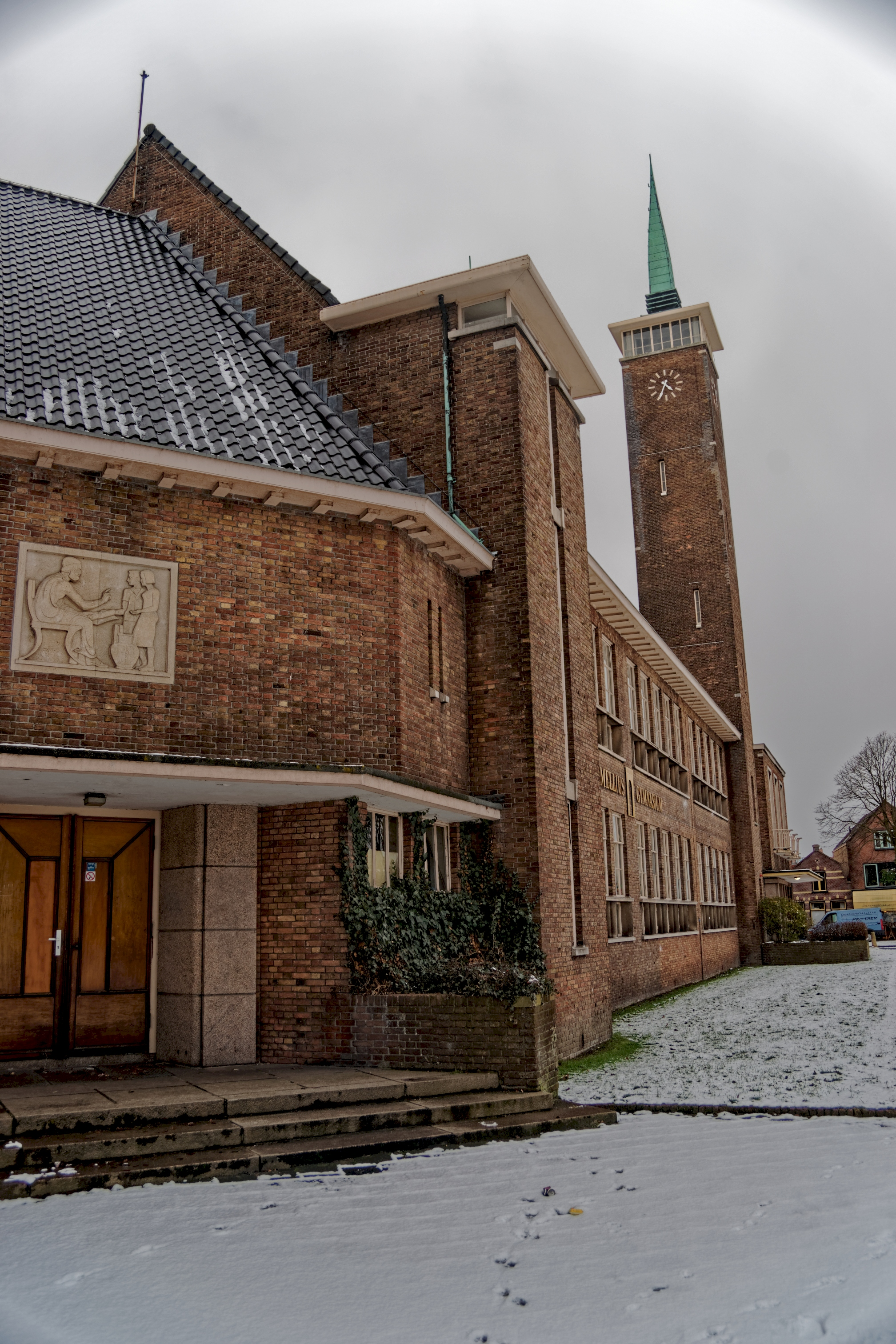 Alkmaar - Geestersingel - View WNW on Murmellius Gymnasium 1940 'Delftse School' Architecture